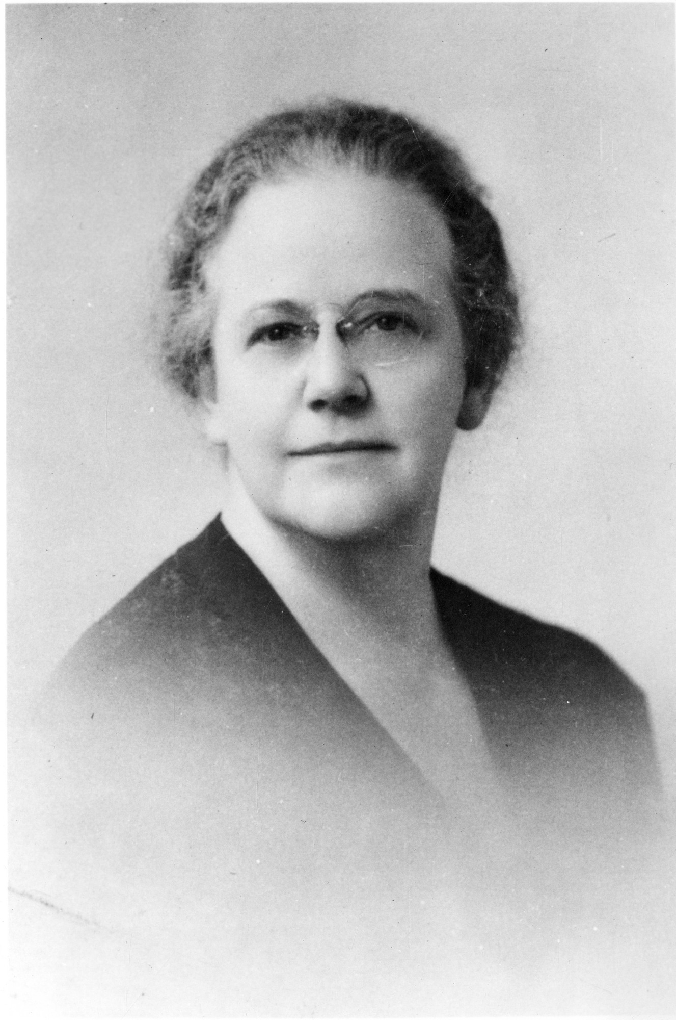 Mary Lura Sherrill (1888-1968) was head of the department of chemistry, Mount Holyoke College and, in 1947, had just received the Francis P. Garvan Medal. She had attended Randolph-Macon College (A.B., 1909) and University of Chicago (Ph.D., 1923) and taught briefly at Randolph-Macon before joining the faculty at Mt. Holyoke College in 1921, where she taught until 1954